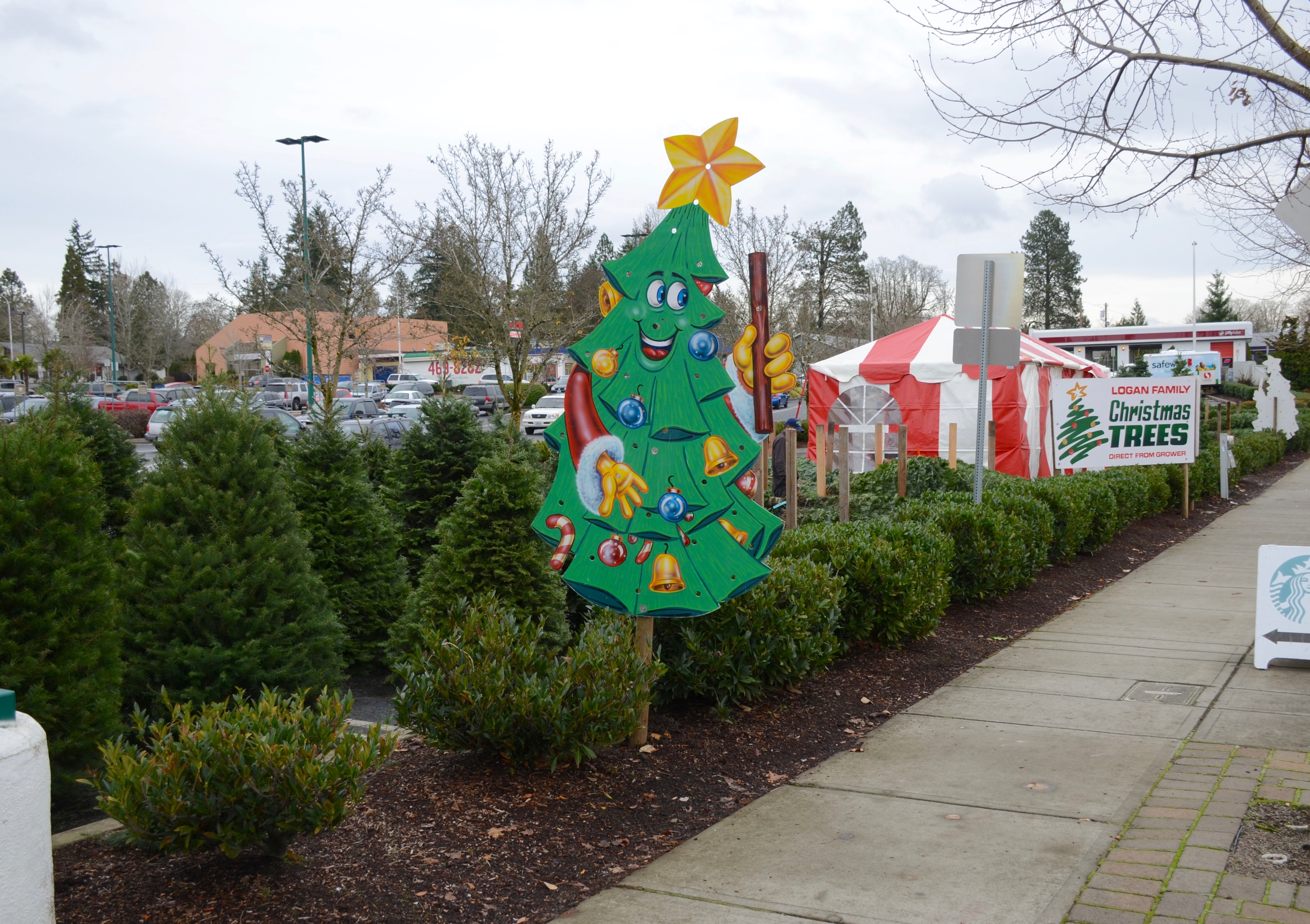 A Christmas tree lot in Cedar Mill, Oregon, on Cornell Road just west of Murray Blvd. (in the parking lot of Sunset Mall and Safeway).